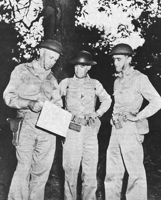 "BRIG. GEN MAXON S. LOUGH, left, with Col. Harrison C. Browne (CofS Phil Div) and Capt. Joseph B. Sallee (ADC), near the front lines."